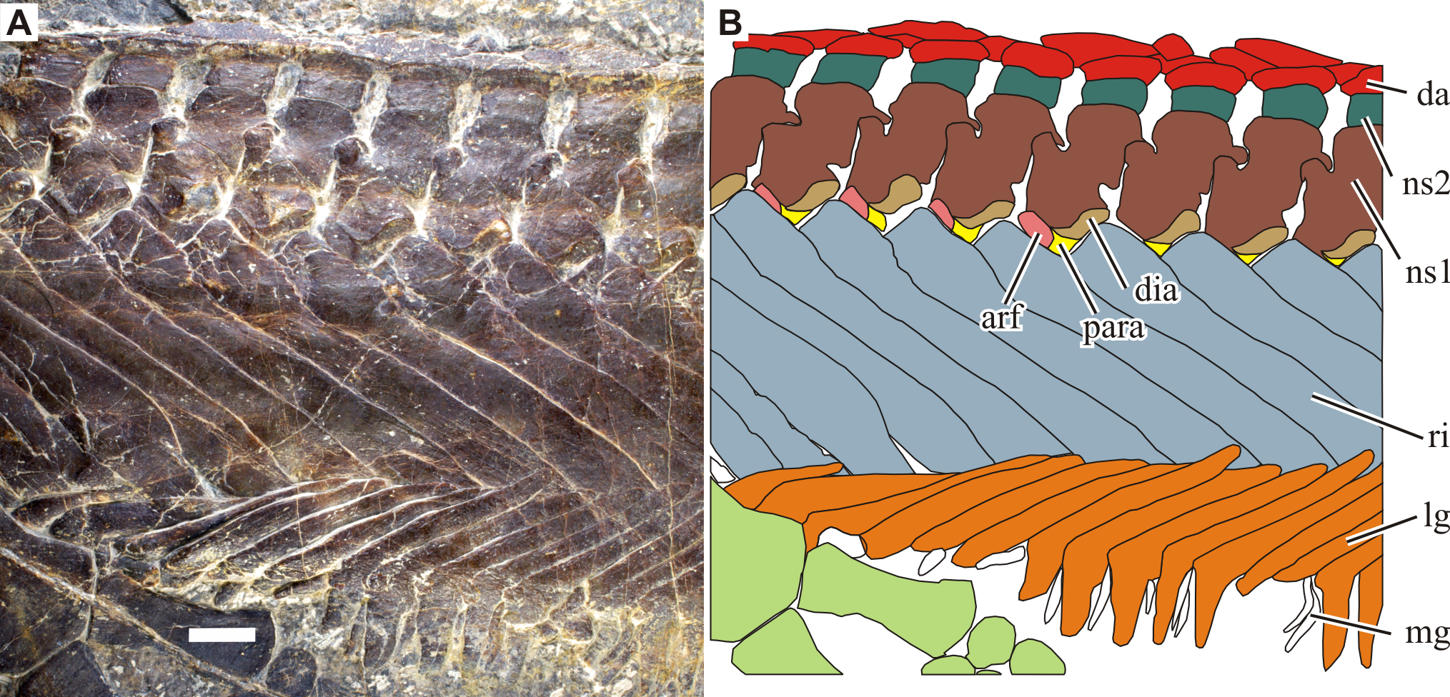 Anterior dorsal region of Parahupehsuchus longus (WGSC 26005). Bone identifications: arf, anterior rib facet extending from the parapophysis; da, dermal armor; dia, diapophysis of the neural arch; f, forelimb; lg, lateral gastralia; mg, median gastralia; ns1, first segment of neural spine; ns2, second segment of neural spine; para, the main facet of parapophysis; ri, rib. Scale is 1 cm. Note that ribs and gastralia overlap in a complex manner and the double rib articulation prevents rib motion.